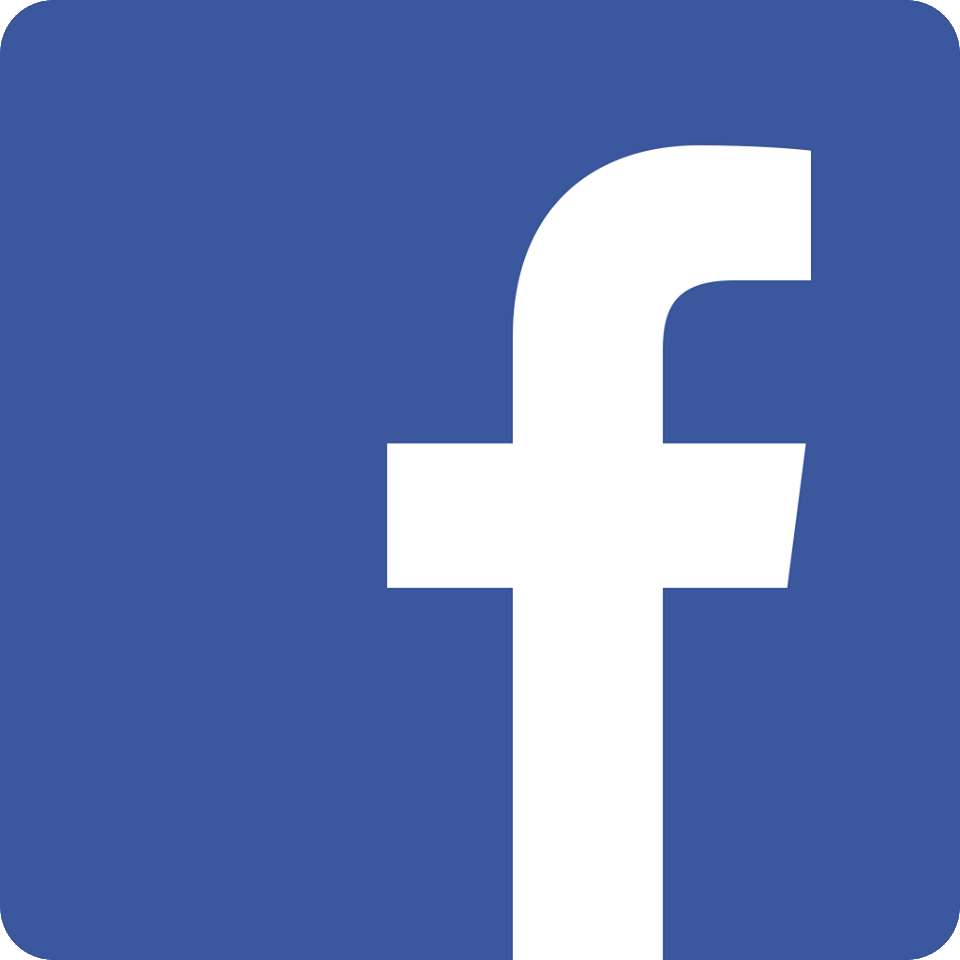 Squared Facebook logo as of 2013